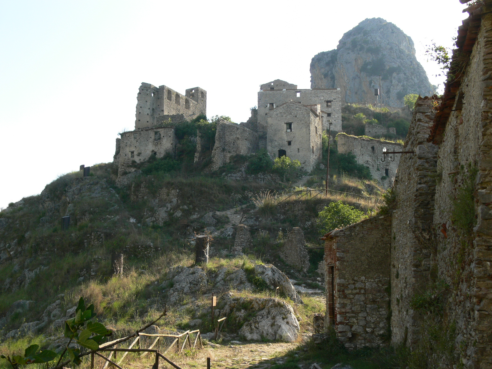 Castel of San Severino, Centola, Campania